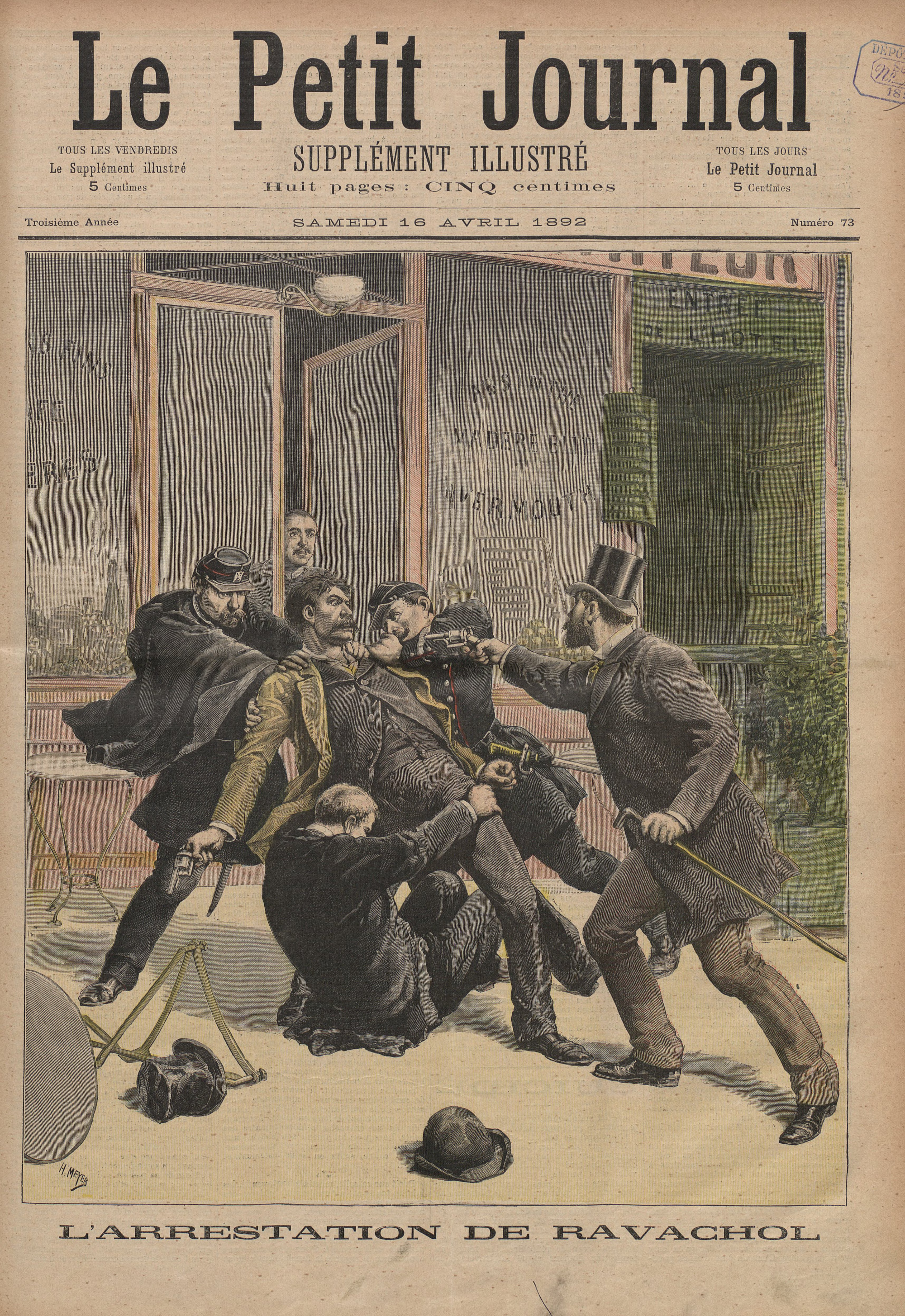 Cover page of "Le Petit Journal" illustrating the arrest of French anarchist and assassin Ravachol (1859-1892).